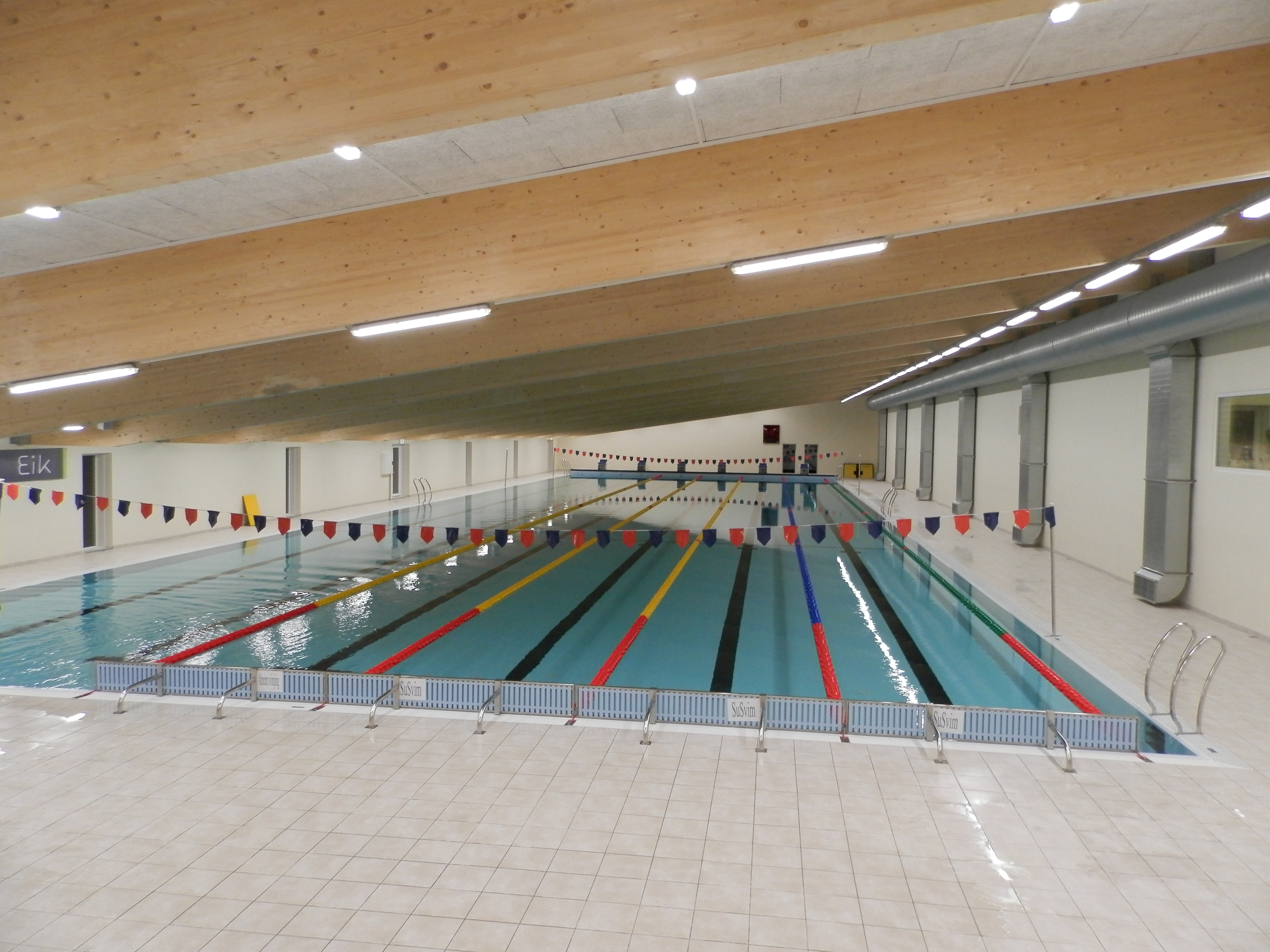 Páls Høll - Faroe Islands Aquatic Center is located in Vágur, Suðuroy, Faroe Islands. It opened on 17 October 2015. The pool is 50 meter long, it is the first 50-meter swimming pool in the Faroe Islands. In the wellness-center, there are two saunas (one for men and one for women), a steam bath and a hot tub. There are also two massage-rooms The swimming club SuSvim has daily trainings here.